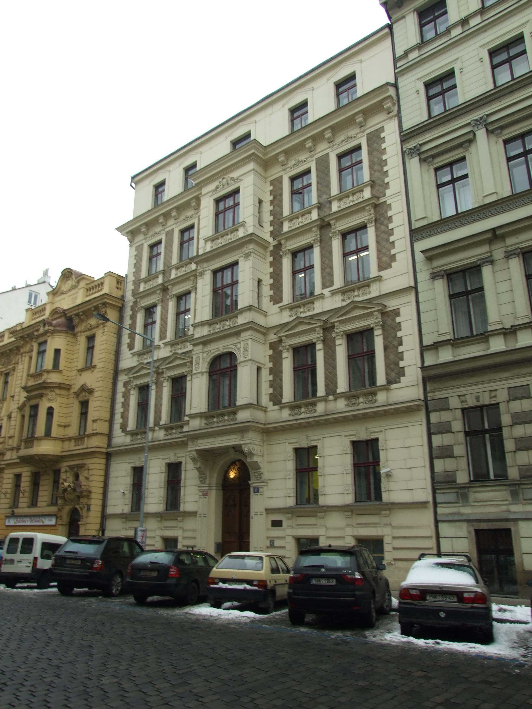 IES FSV UK (Charles University) building in Prague, Opletalova street